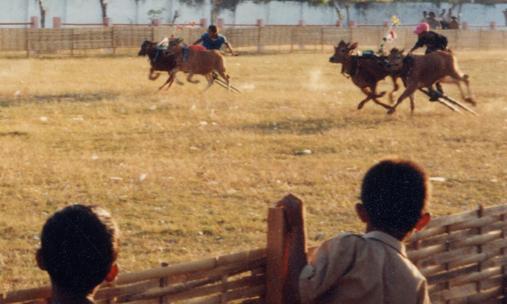 Bull racing (kerapan sapi) in Sumenep, Madura, East Java, Indonesia on August/September 1999. Cropped from File:Madura_bull_racing_1999.jpeg